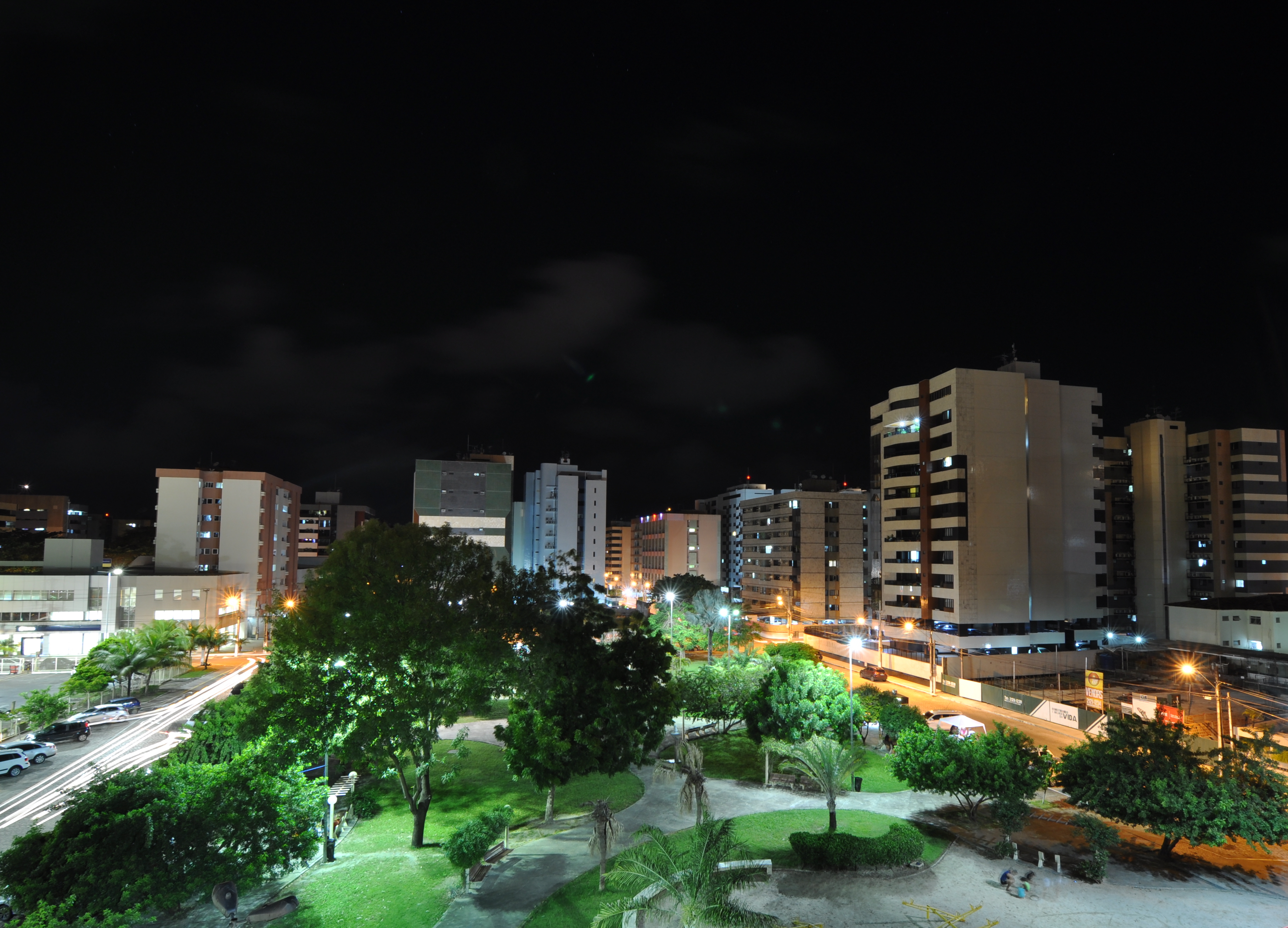 Square at Professor Vital Barbosa Street, Maceió, Brazil.